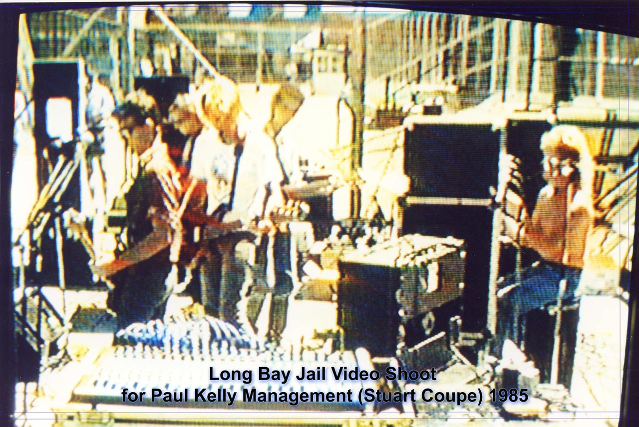 PaulKellyLongBay - photo taken and uploaded by Paul Moss, Photographer, Artist, Paul Moss Photographer Artist NZ Paul Moss has supplied further information on the creation of this image in response to my questions via email: 1) Were you involved in making the video of PK&tCG's performance at Long Bay Gaol? 2) Were you an employee of Stuart Coupe or Paul Kelly Management in 1985? 3) Was the photo taken from a TV program/VHS tape, if so which? 4) How was the image released into the public domain? 5) Is there a clearer print of the scene? Answers from Paul Moss: 1/ YES. I was the only video-grapher, the footage was made on my own equipment, at my own cost. (Sony HVC4000P and F1) 2/ I was asked to make the video by and for Stuart Coupe, while he was PK manager. 3/ The photo was taken from my original video tape, it was sony betamax format, by me. I took a 35mm film photo of the screen in 1987, played directly, and subsequently scanned the print. 4/ I uploaded the file to Wikipedia, I claimed the right to release the image. 5/ I don't know if the vhs copy is still existant, but if it is I could make a clearer copy. I could certainly make a new file without the text on it. I thank Paul Moss for supplying this additional information.shaidar cuebiyar (talk) 08:40, 12 May 2010 (UTC) Recent Documentary played on ABC Television. On demand here: My Long Bay Jail Footage (Dec 24th 1986) was requested for this doco, but no one could find a copy.. Paul Kelly - Stories of Me charts the remarkable life of one of Australia's most gifted and beloved singer-songwriters. ABC TV /